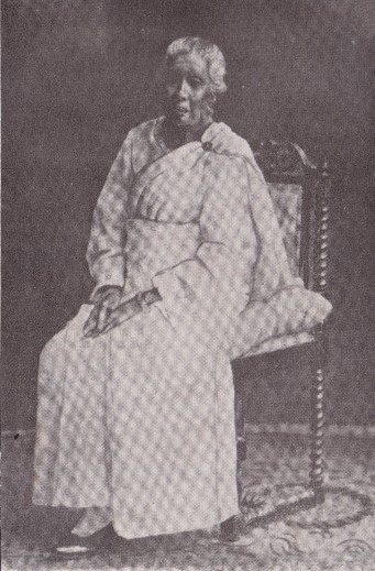 Portrait of Lady Mallika Dharmagunawardhana (Mother of Anagarika Dharmapala & Wife of late Mudaliyar Don Carolis Appuhamy)